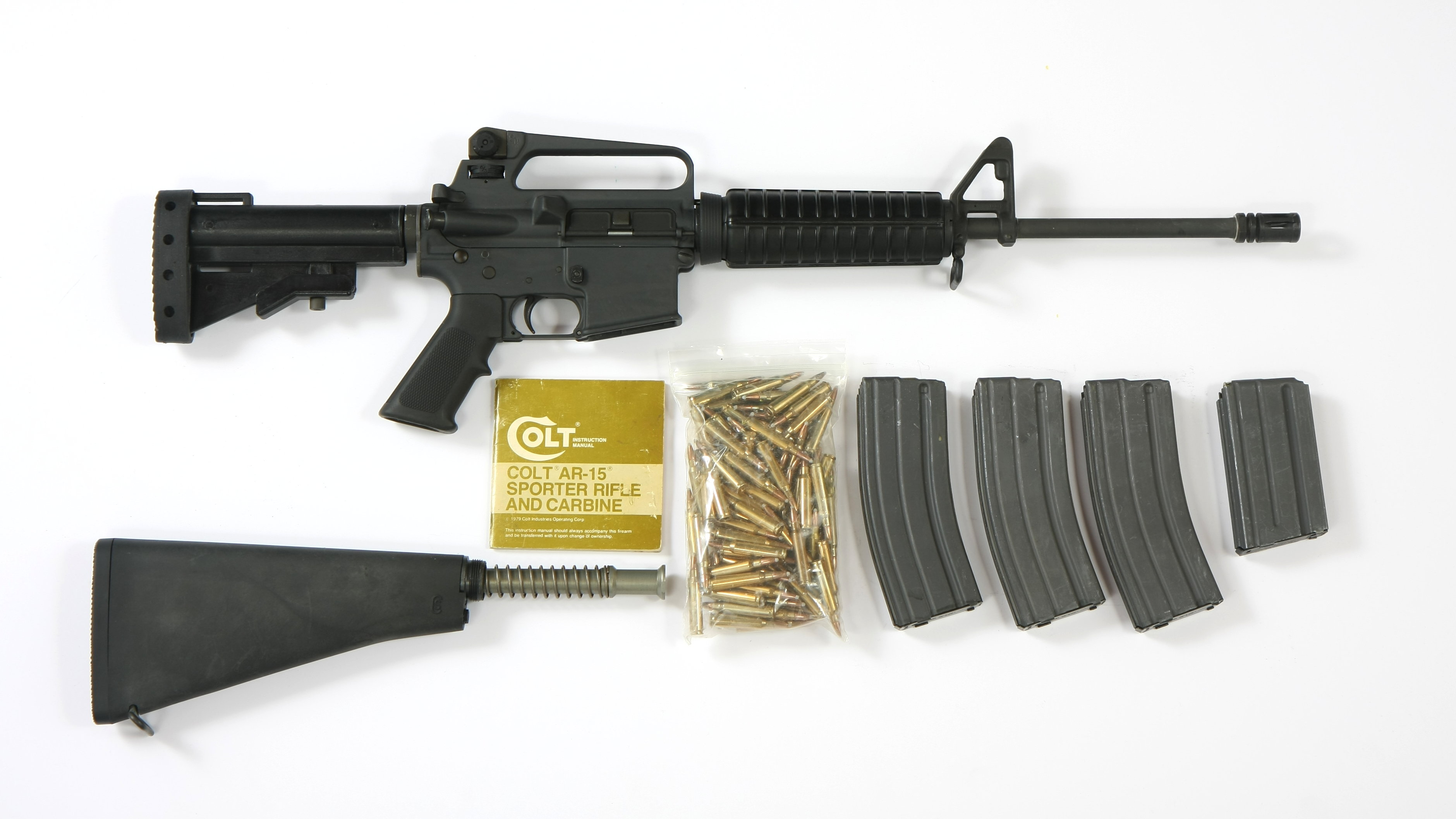 Compete rifle set with manual and 5.56mm rounds, three mags Pre-ban Colt AR-15 Sporter Lightweight rifle.